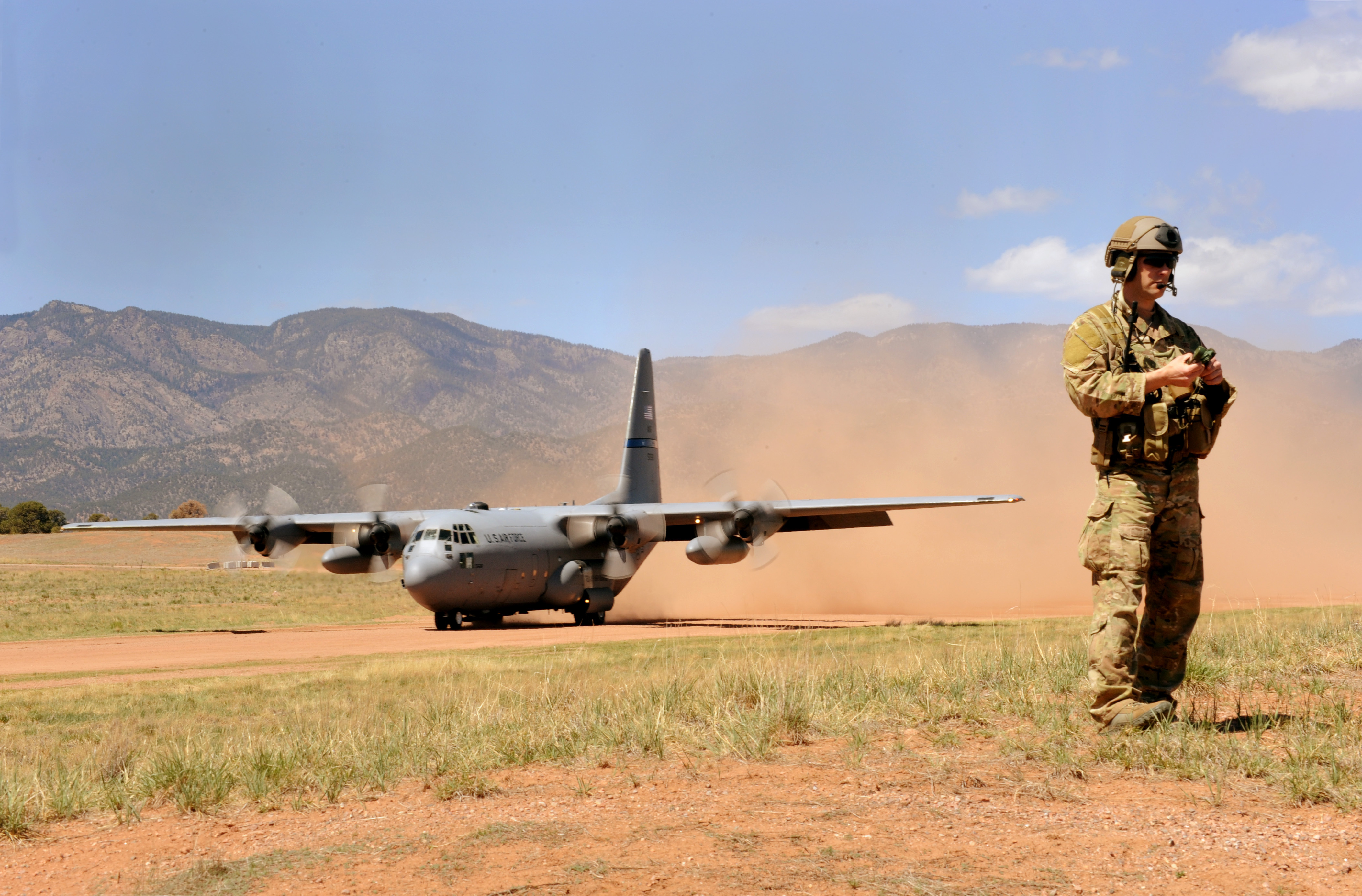 Oregon Air National Guard Master Sgt. Roy Lofts, a special operations weatherman with the 125th Special Tactics Squadron takes various weather readings while a C-130 lands at the Red Devil air strip at Fort Carson, Colo. Members of the 125th train combat controllers and other special operations Airmen as they helped train pilots on take-offs and landings at various air fields at Fort Carson. (U.S. Air Force photo by Tech. Sgt. John Hughel, 142nd Fighter Wing Public Affairs/Released)